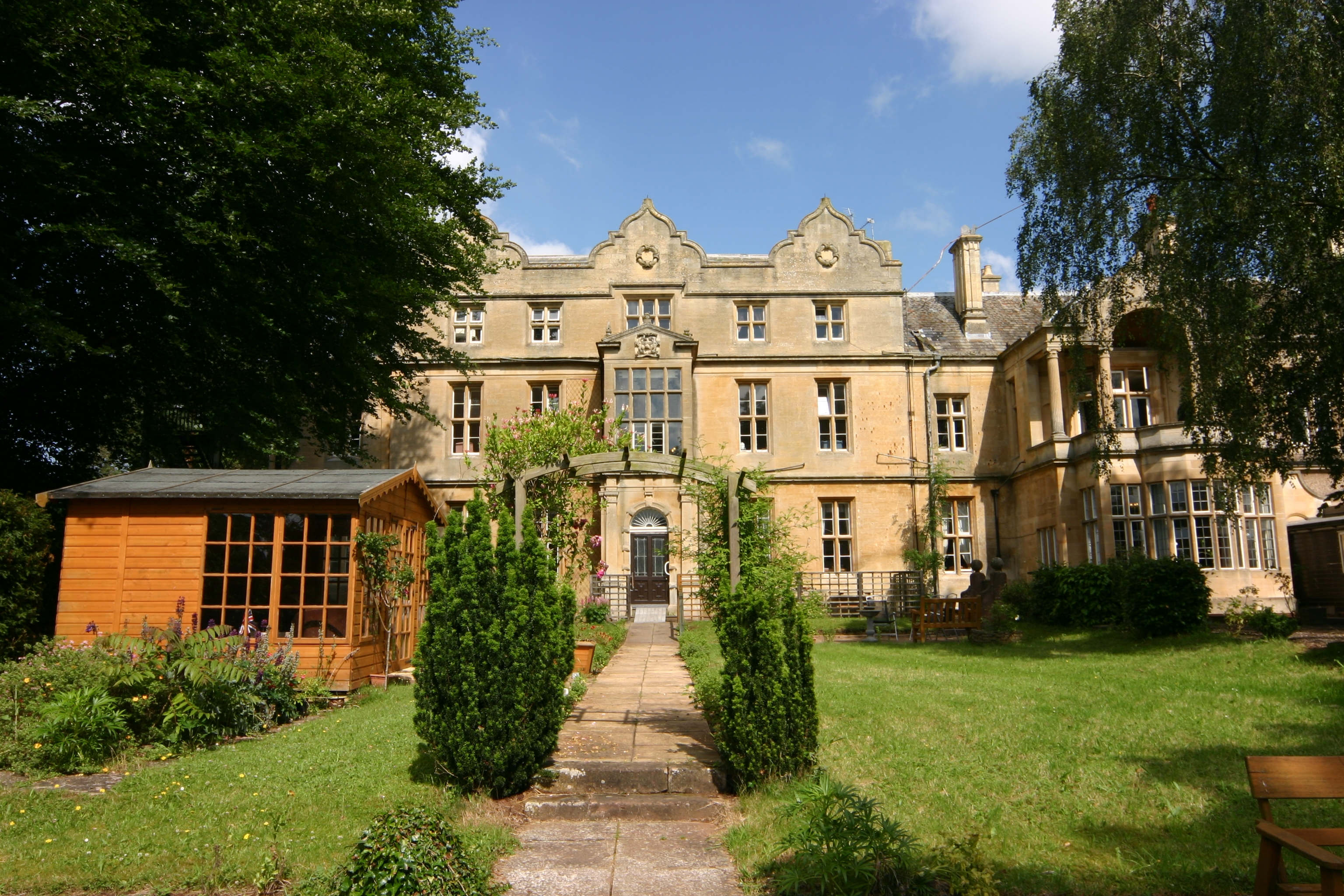 Astley Hall, Worcestershire, home of Stanley Baldwin, 1st Earl Baldwin of Bewdley, KG PC FRS (1867–1947), three times Prime Minister of the United Kingdom